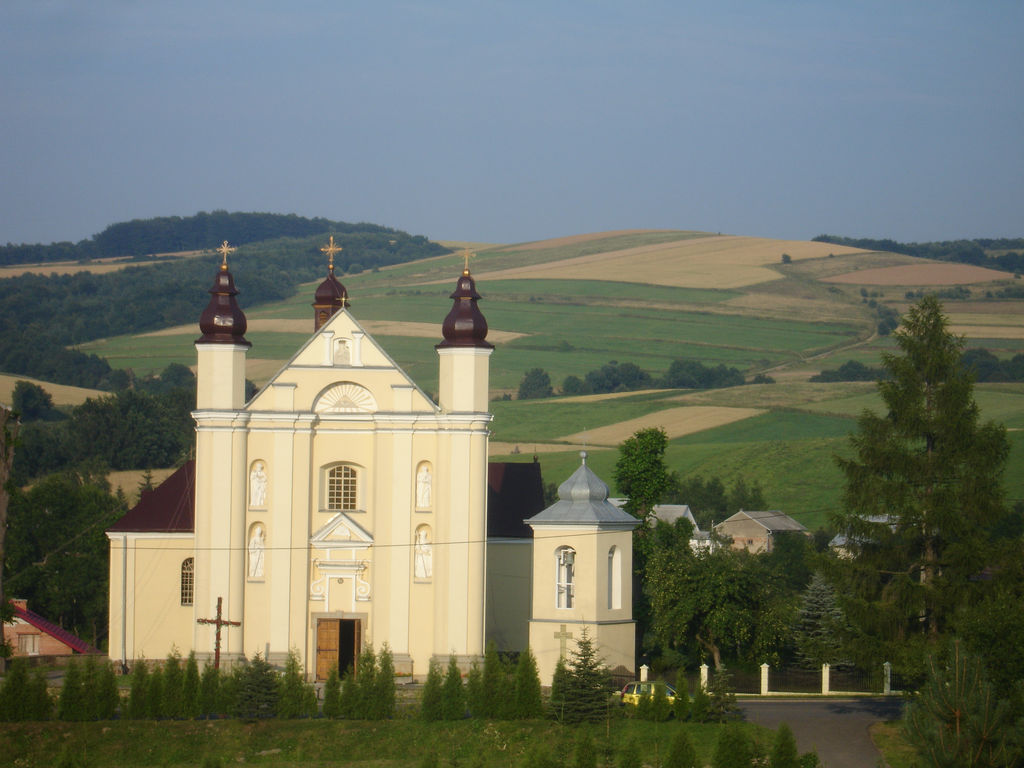 Nowotaniec - church ( parish ) and Bukowina hill, view from cemetery hill